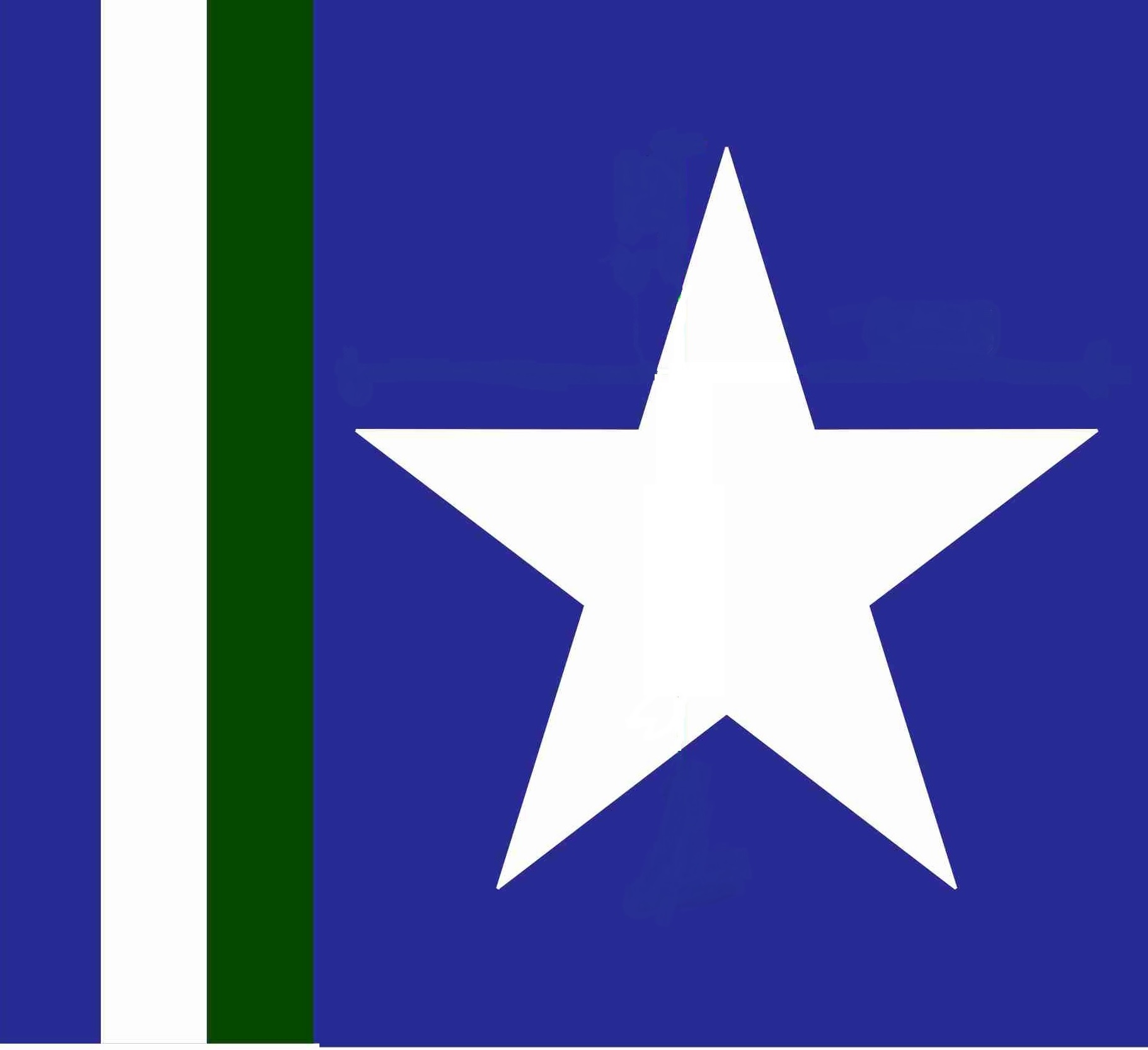 MP Flag